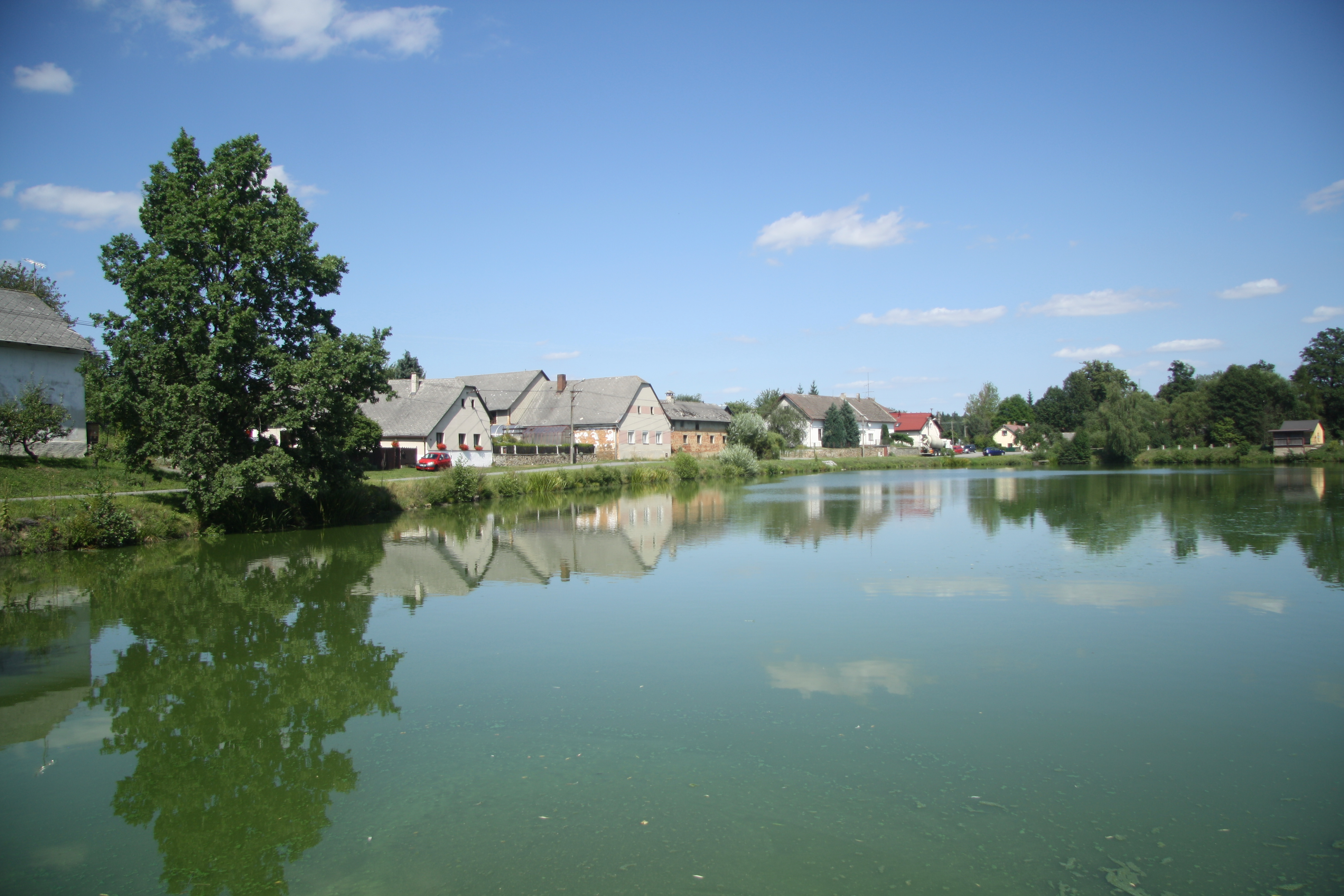 Center of Smilov, Štoky, Havlíčkův Brod District.